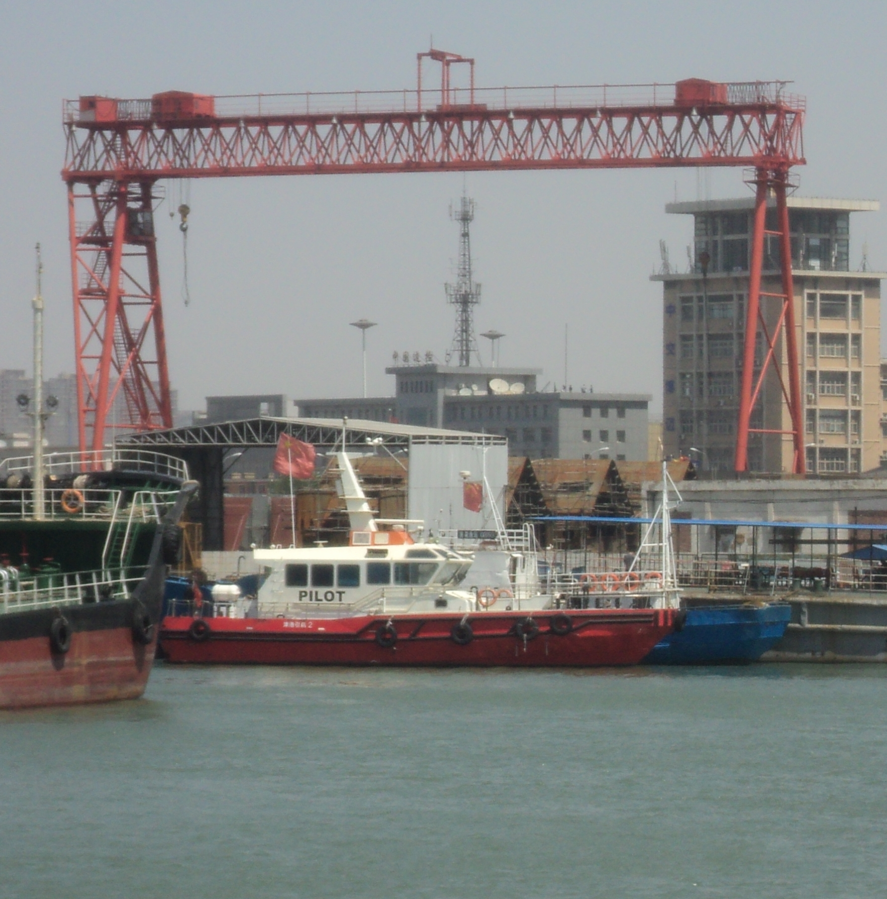 The "Tianjin Gangyi 2-hao" One of three newly built pilot boats which ferry the harbor pilots to the ships waiting in anchorage. It is a typical pilot boat, with the white and red color scheme, and the set of white over red pilot boat lights (the Hotel flag is not hoisted). These vessels are designed to be fast, maneuverable and sturdy enough to resist bumping against a supertanker.